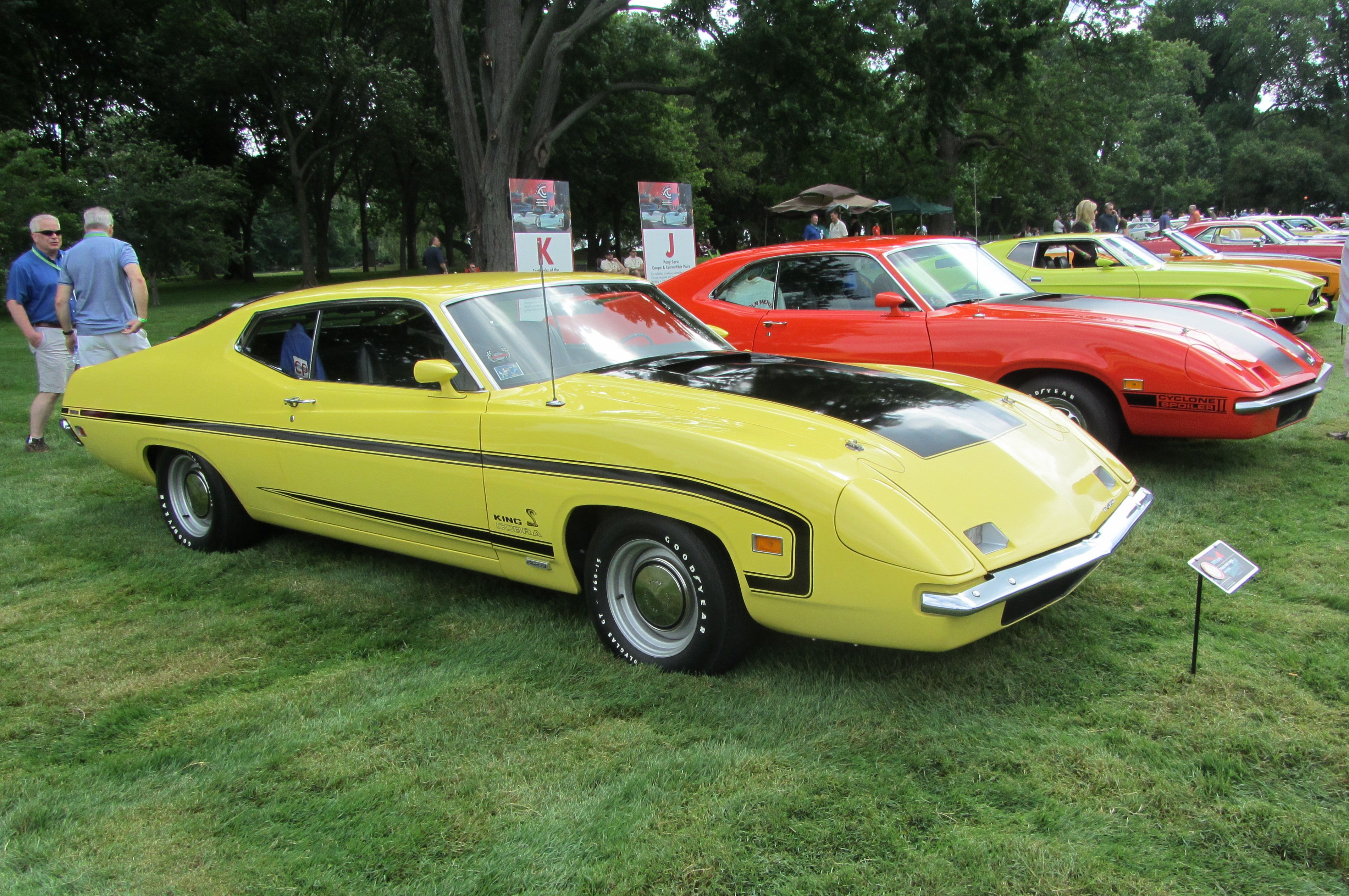 Ford Torino King Cobra, originally intended as a homologation special for the 1970 NASCAR season, one of three produced.